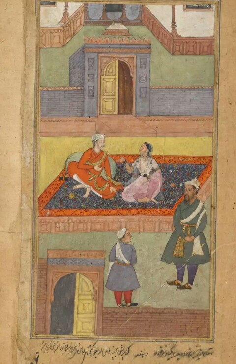 Aswamedhikaparwa